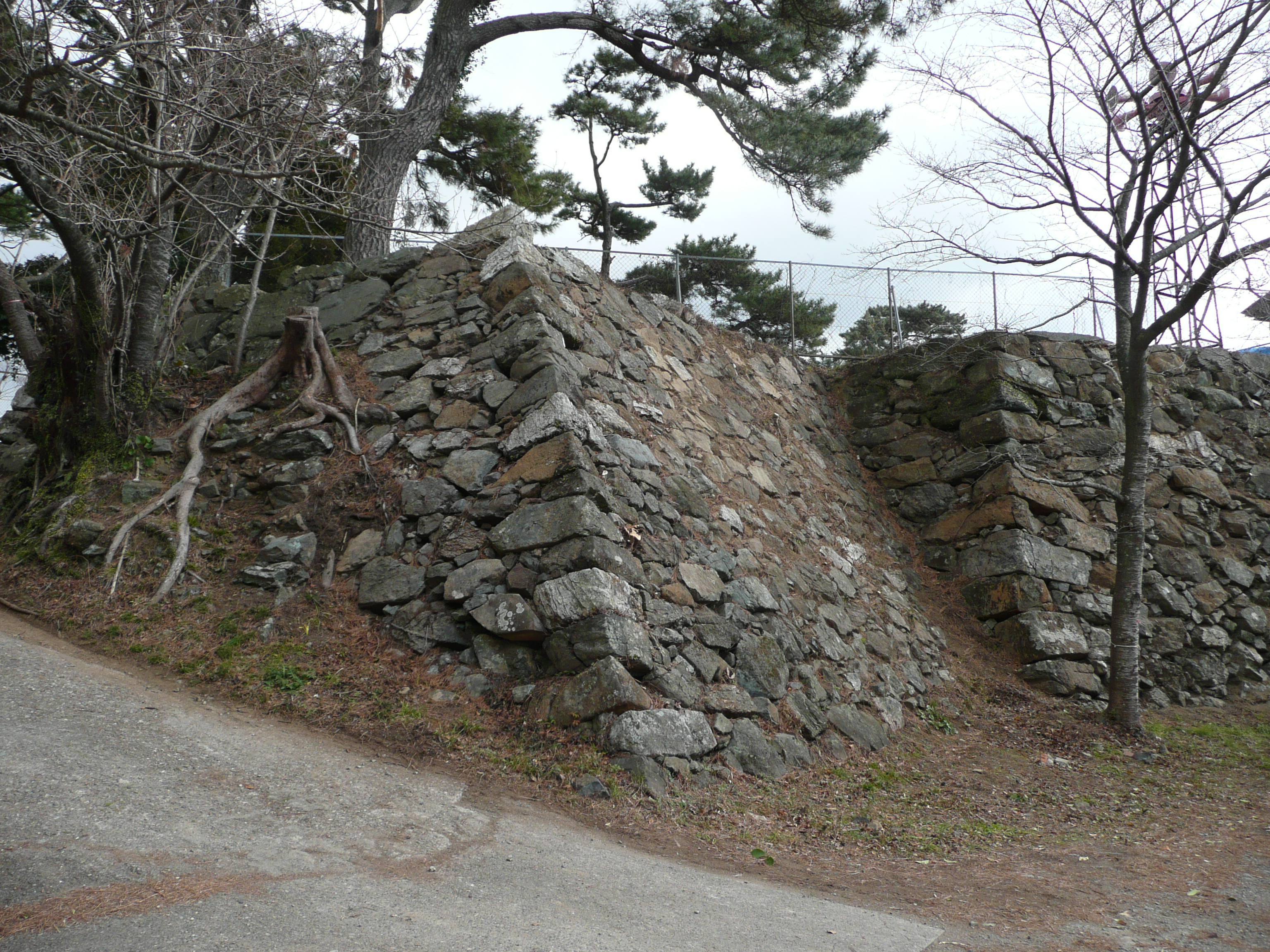 鳥羽城本丸の石垣